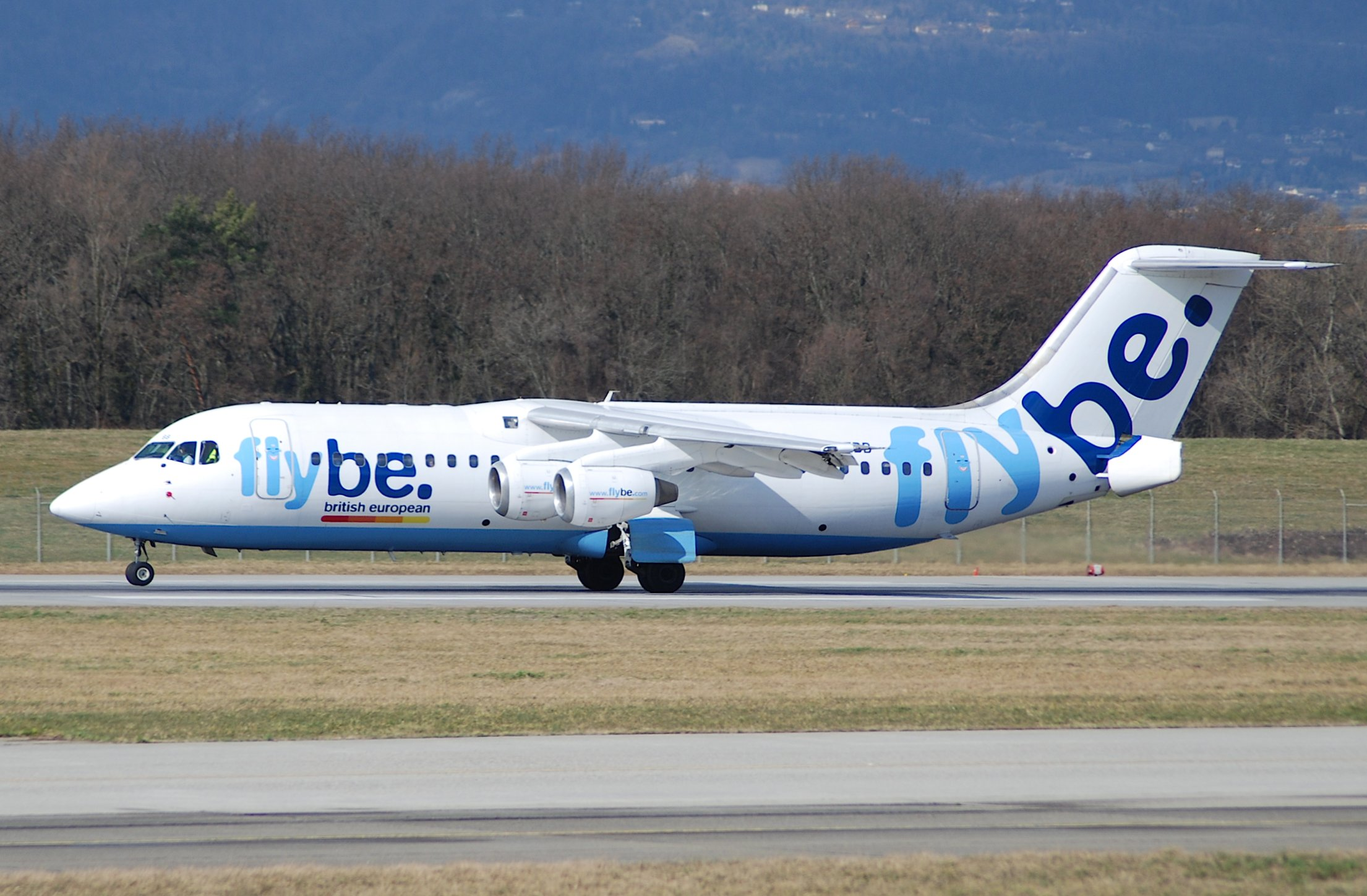 First flight: December 13, 1990...(c/n E3185) 04/06/1991 Thai Airways HS-TBK 28/06/1998 Jersey European Airways G-JEBB 01/06/2000 British European Airways G-JEBB 18/07/2002 FlyBe G-JEBB stored at Exeter 11/2007 03/08/2009 Star Peru OB-1923-P